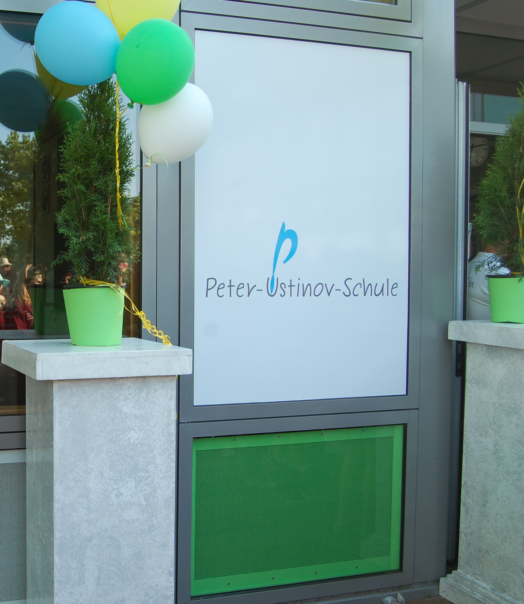 Namensfest